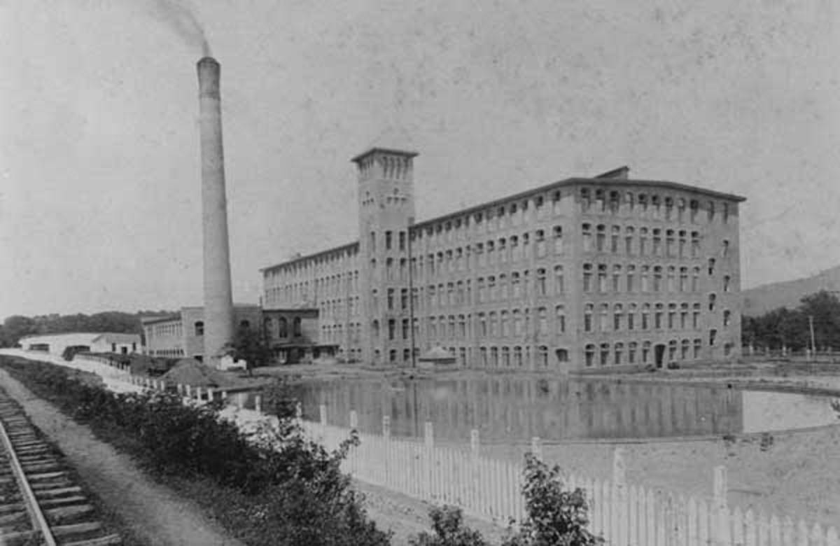 Dallas Mill, before the addition. Chartered by Trevanion B. Dallas of Nashville, Dallas Mills began operation in 1892 as Alabama's largest cotton mill and mainly produced cotton sheeting through dying and bleaching cotton and woolen goods. The mill village extended from Oakwood Ave. south to Dallas St. Employees, often called "lint heads" were provided homes, medical care, churches, library, lodge building, YMCA, concerts, a kindergarten and schools. The mill closed in 1949 and the village was incorporated into the city of Huntsville in 1955. One of the outstanding architectural features of the building was a spiral fire escape. Fortunately, when the building burned down on July 24, 1991, it was unoccupied.